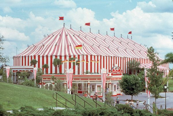 View of big tent at the Circus World theme park in Orlando, Florida.